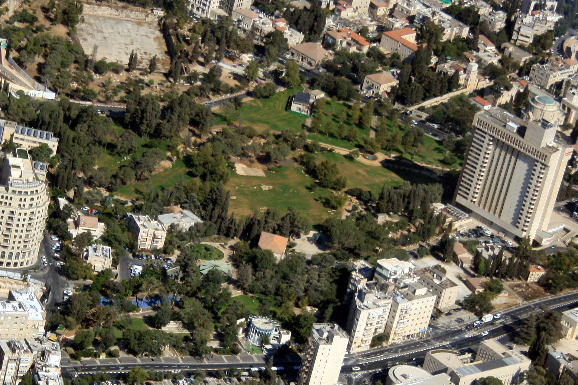 Independence Park, Jerusalem.